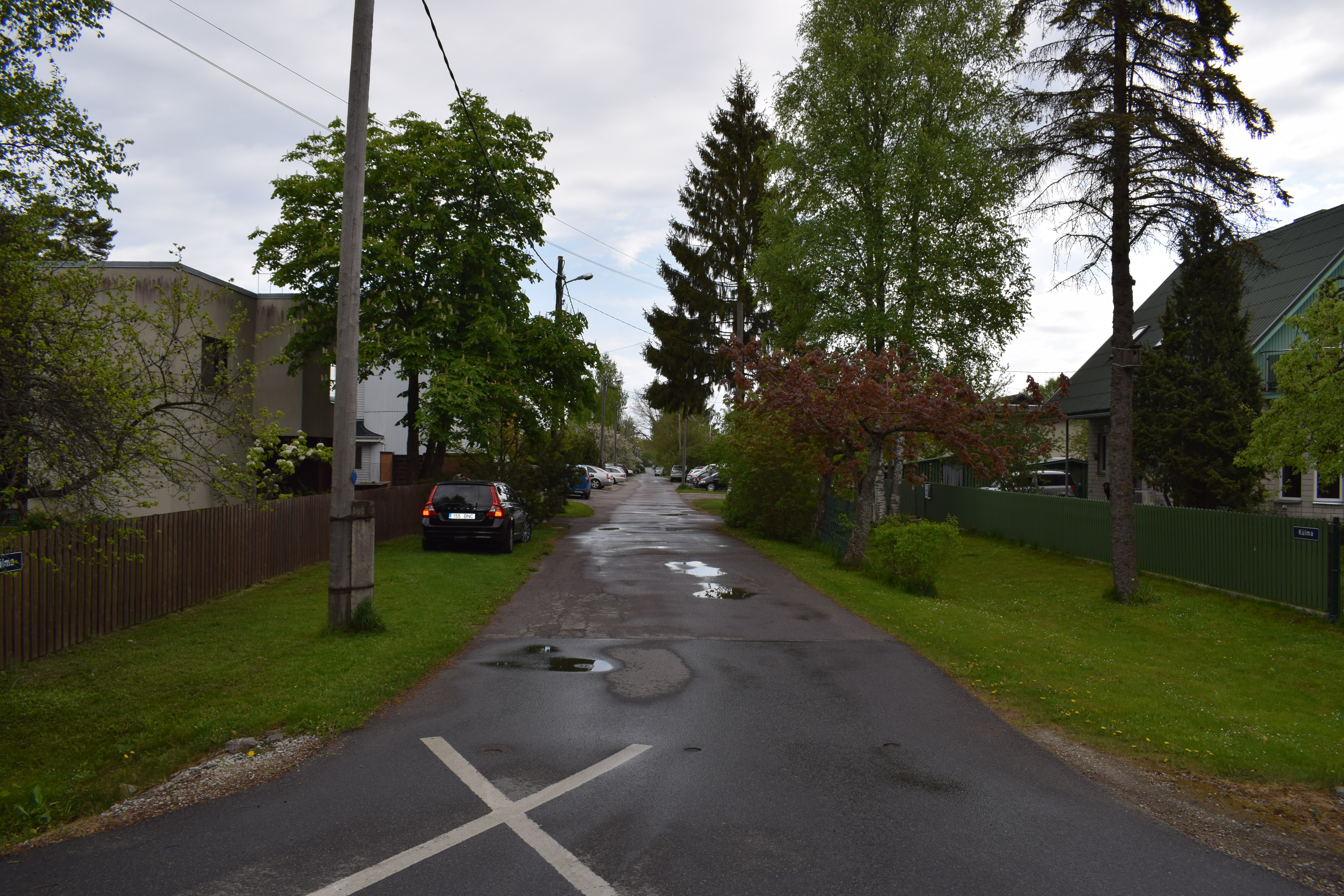 Külma street